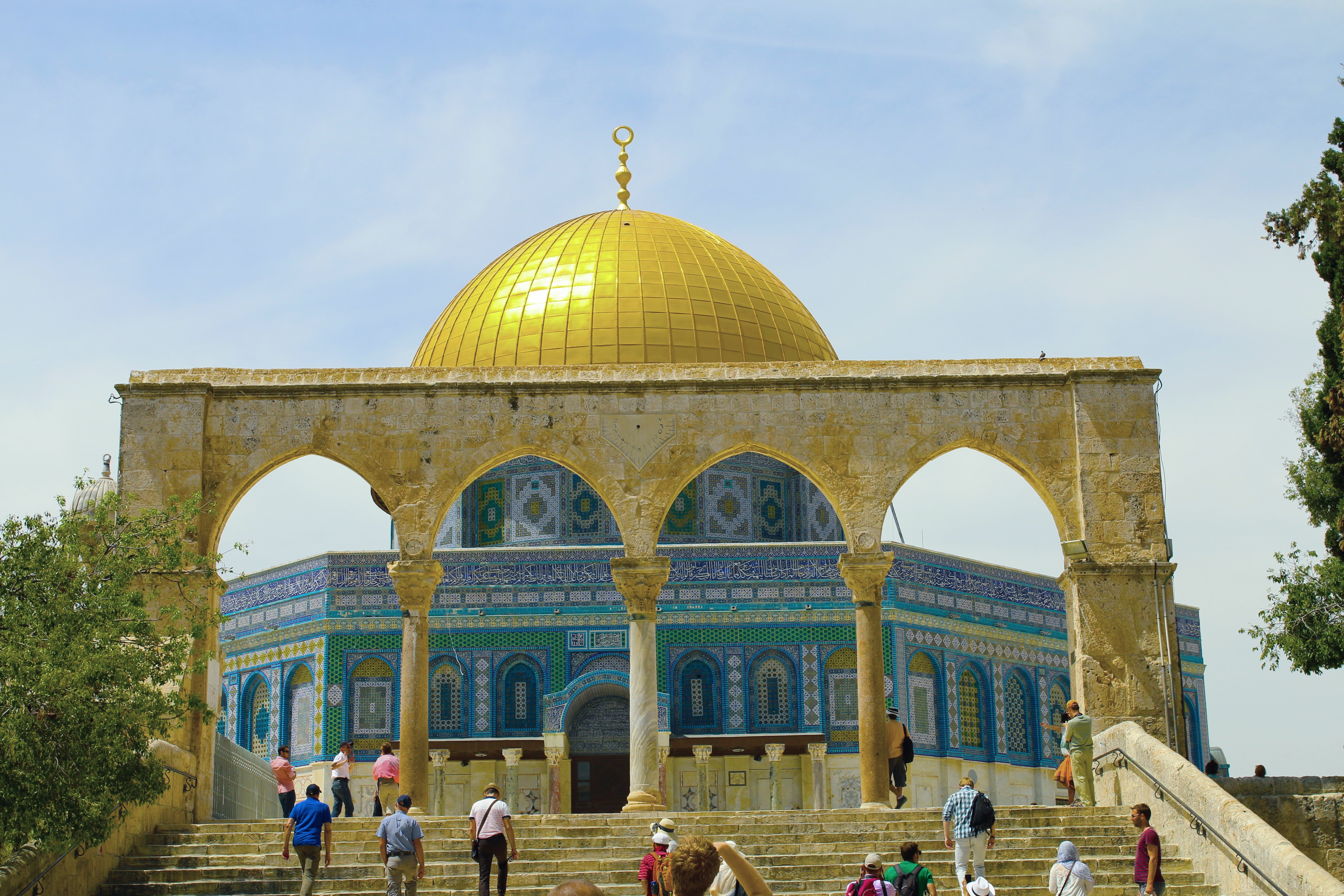 A view of the dome of the rock from the east.